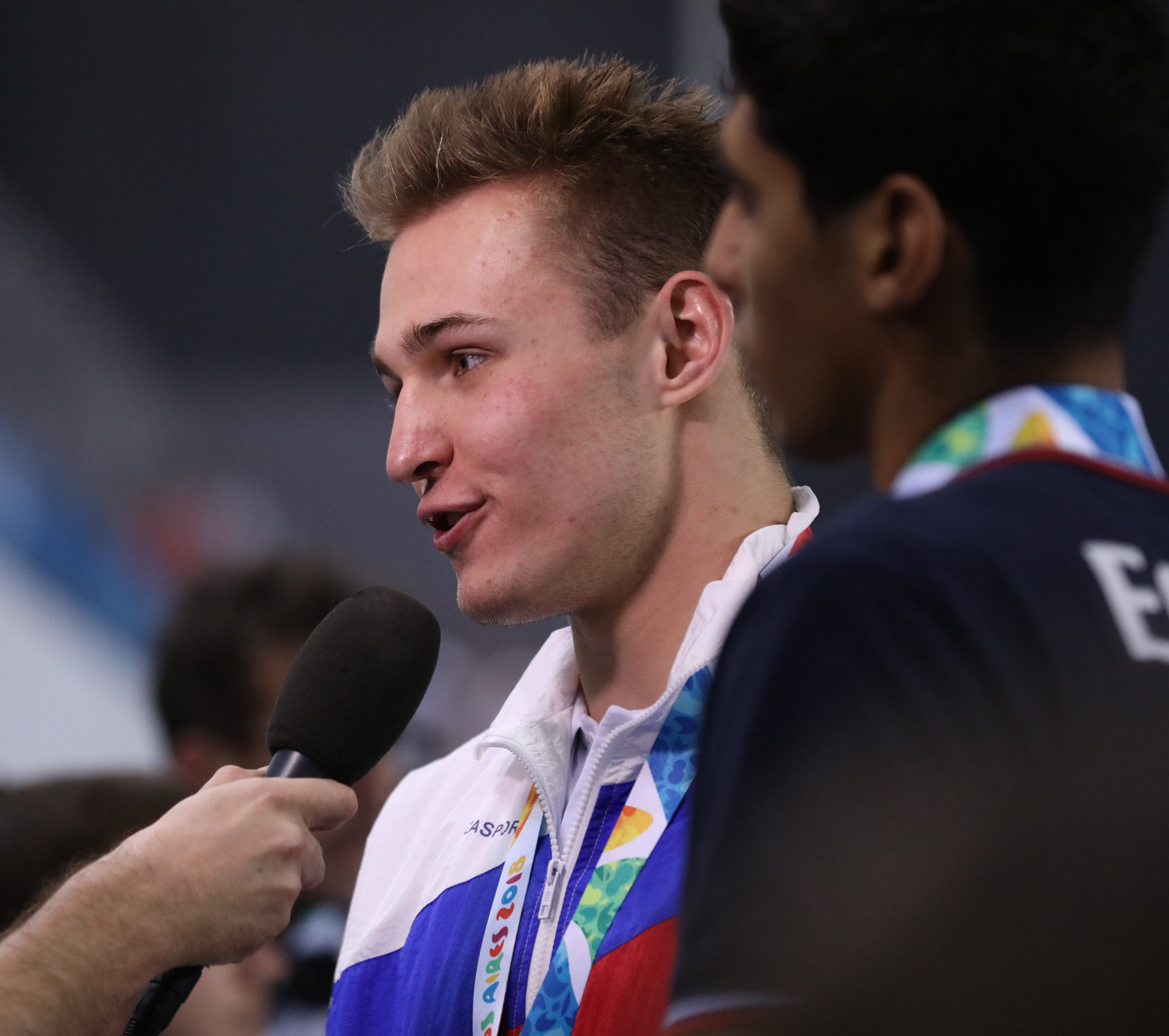 Boys' Swimming, 50 m Freestyle Final at the 2018 Summer Youth Olympics in Buenos Aires at the 10th October 2018